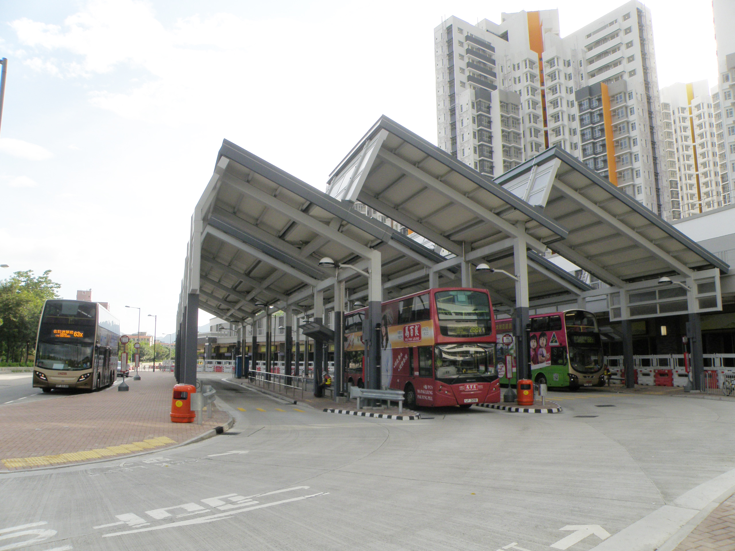 Hung Fuk Estate Public Transport Interchange in Hung Shui Kiu, Hong Kong.